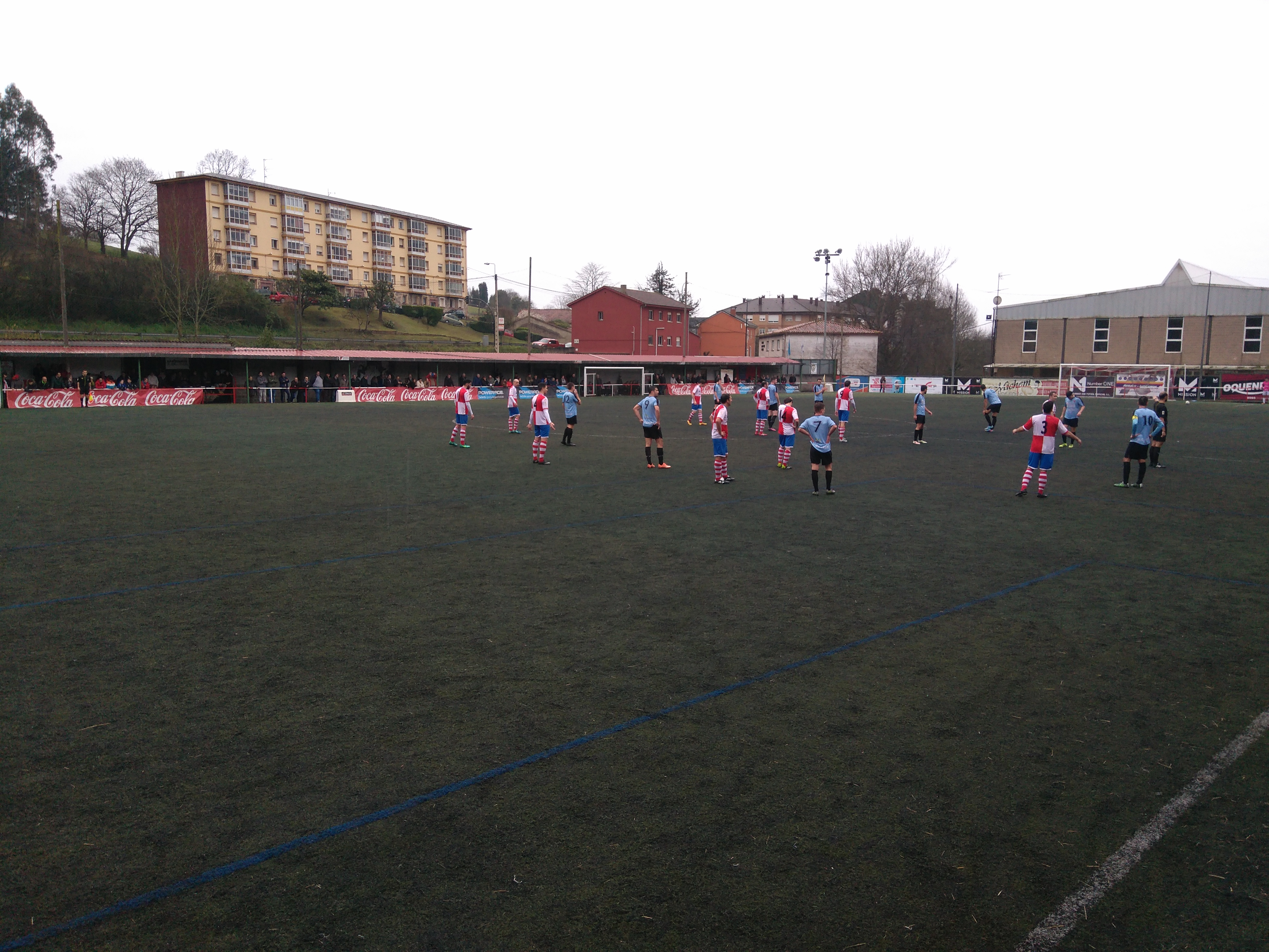 Spanish Tercera División match between UD Llanera and UC Ceares in Posada de Llanera, Asturias.